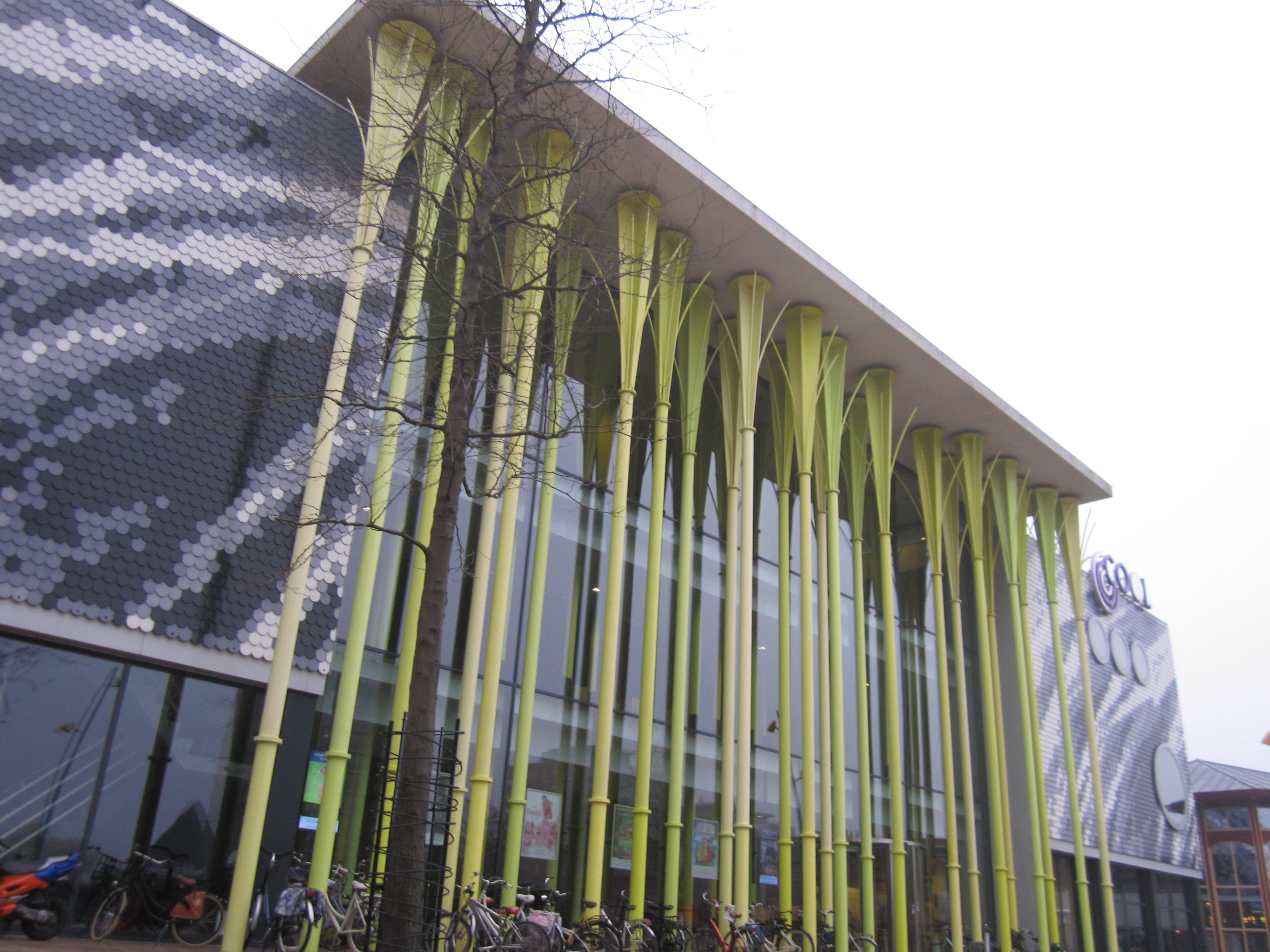 Enterance of Cool kunst en cultuur - House of Culture in Heerhugowaard, The Netherlands